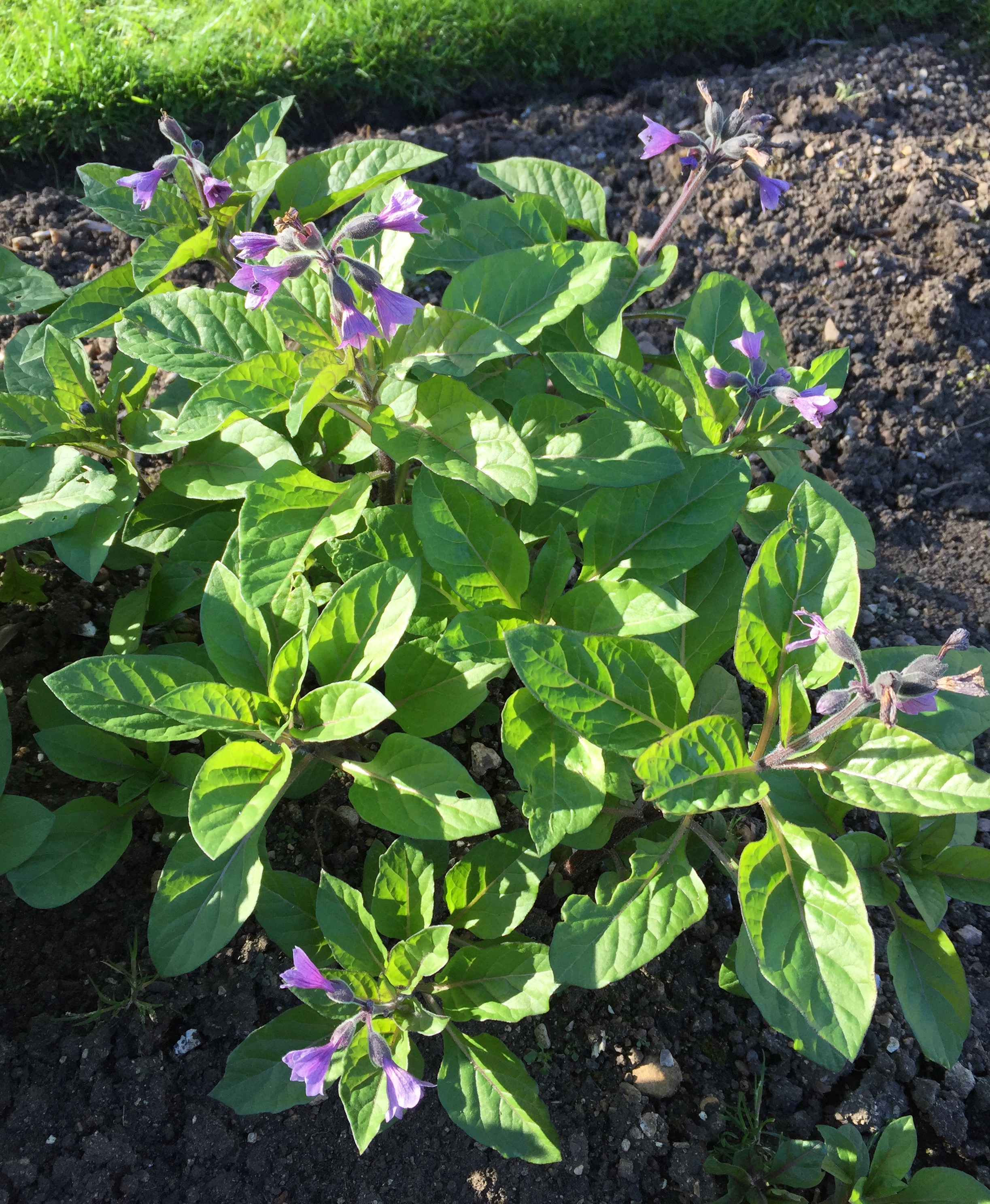 Physochlaina orientalis (M. Bieb) G. Don : clump of this low-growing, tuberous-rooted herbaceous perennial, native to eastern Turkey, the Caucasus, northern Iran and the west of Central Asia, growing in the Solanaceae section of the systematic beds of the University of Oxford Botanic Garden.